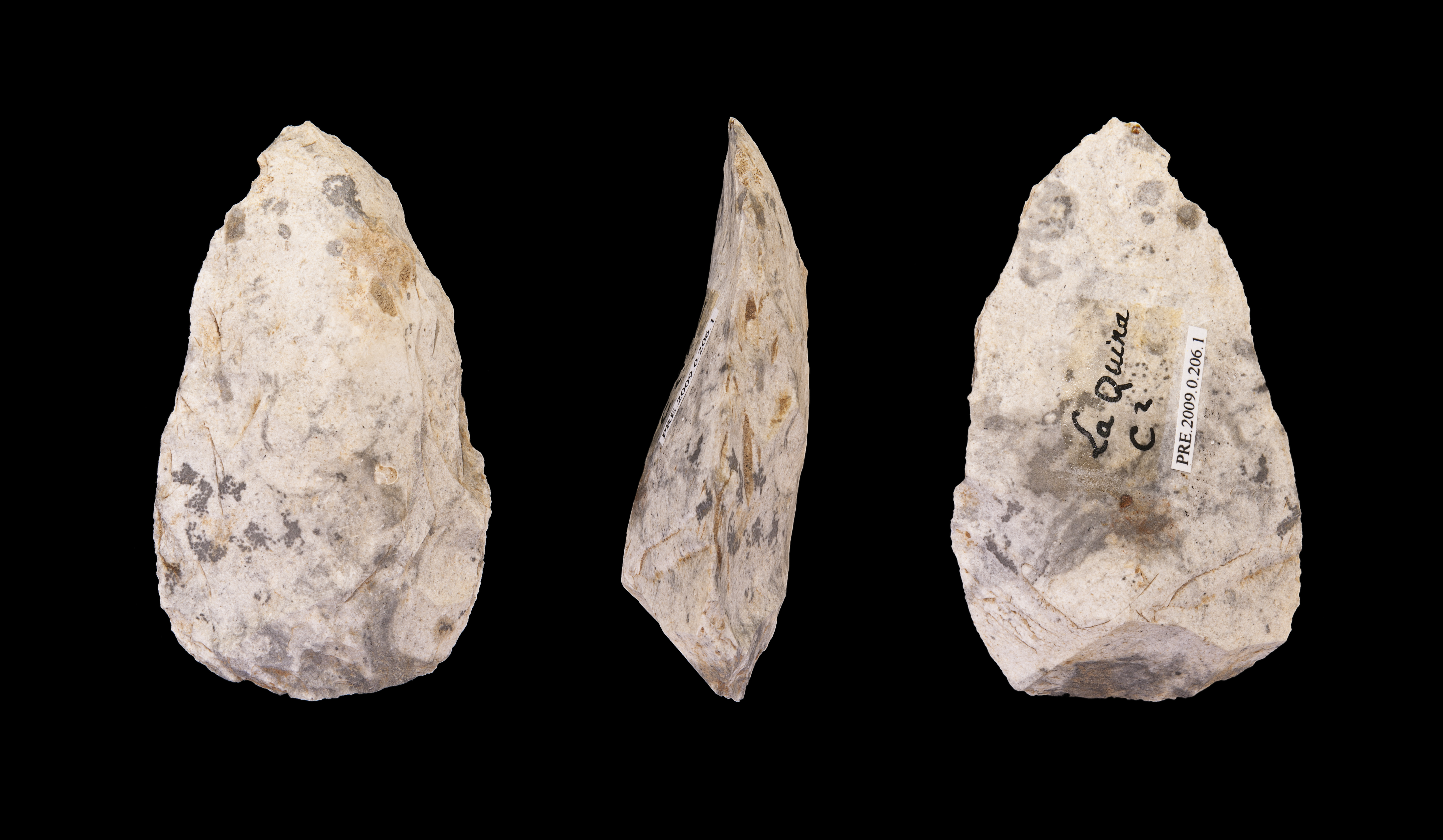 Racloir - Different views of the same specimen.